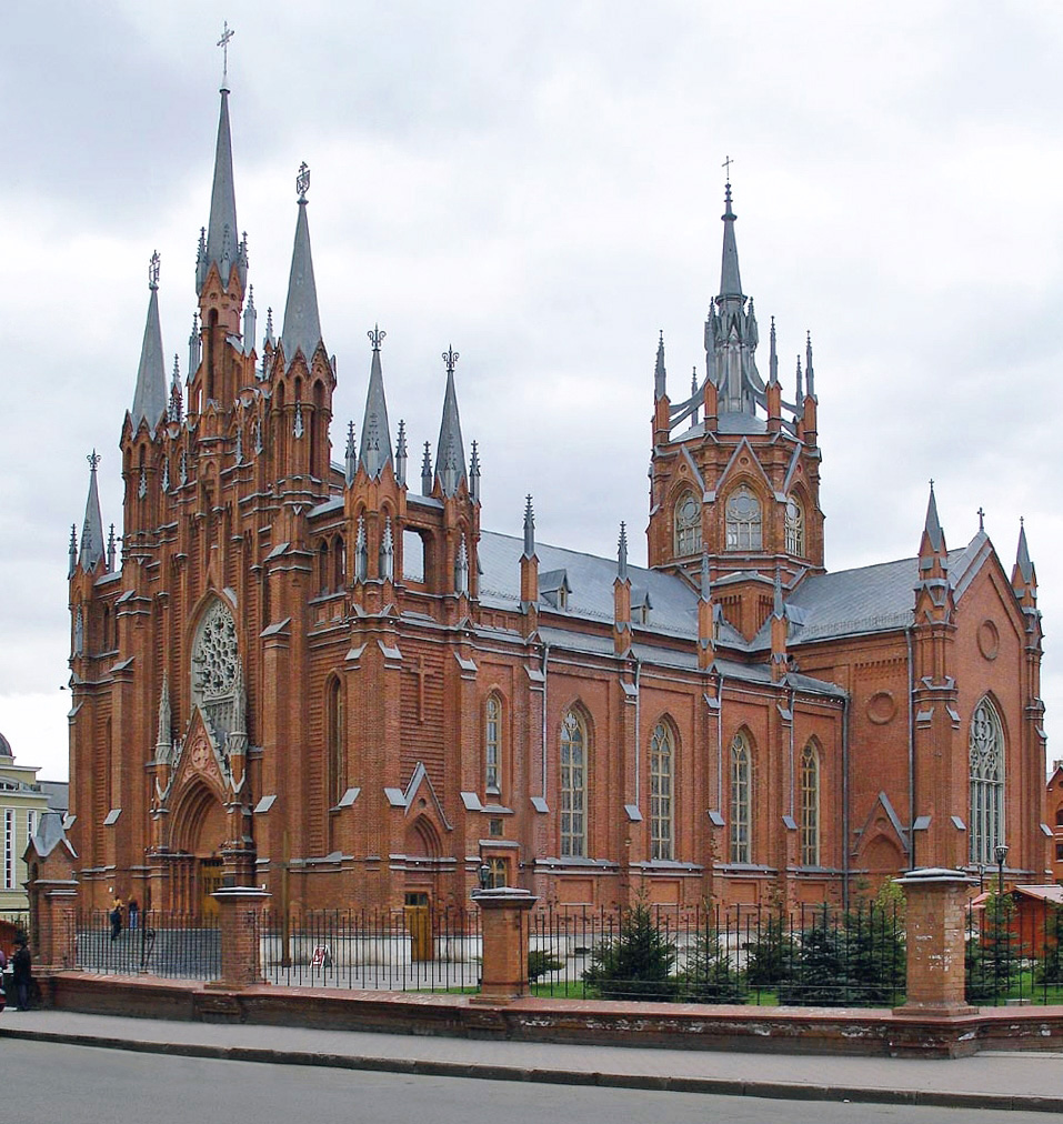 Catholic Cathedral, Moscow